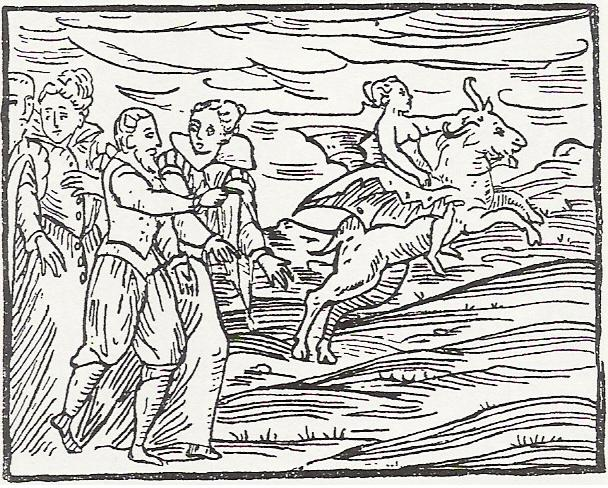 Wood Engraving 13 from the Compendium Maleficarum